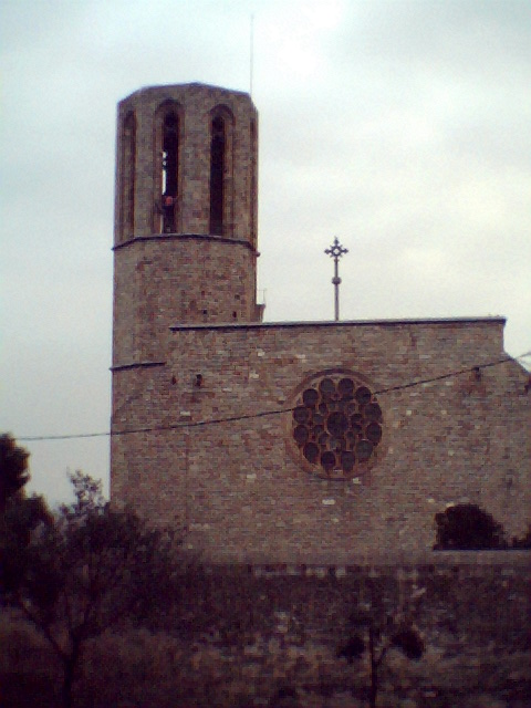 Monestir de Pedralbes (Barcelona) Picture take it by Airunp